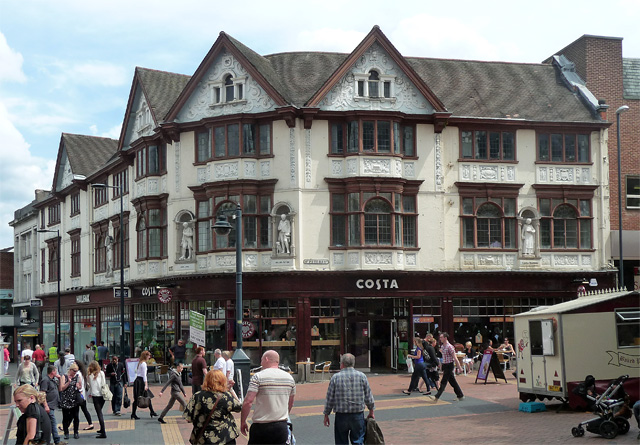 45 St Peter's Street, Derby